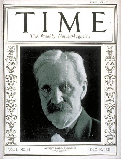 TIME Magazine Cover Featuring Albert B. Cummins